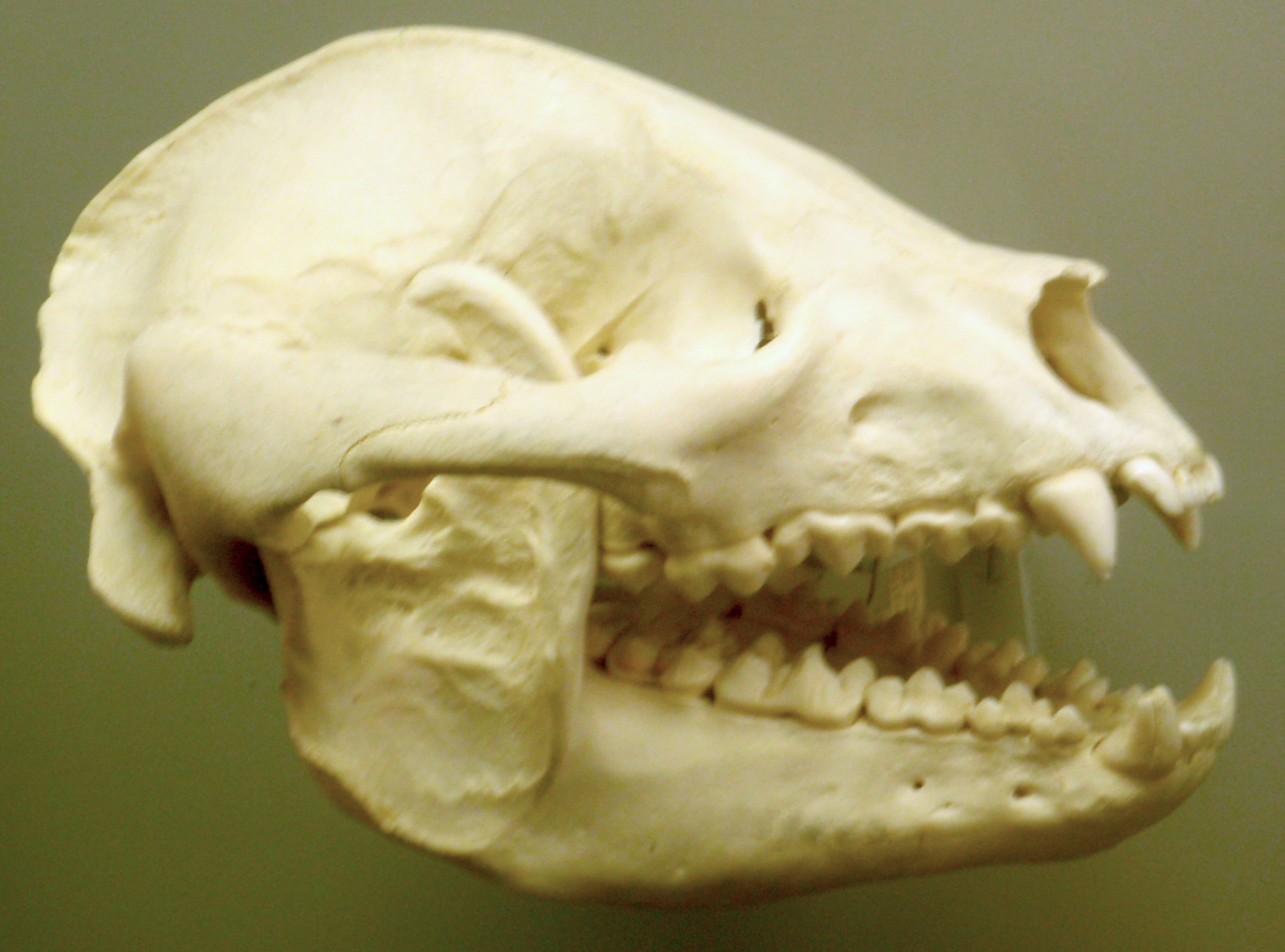 Skull of a Giant Panda on display at the Smithsonian Museum of Natural History. Skull original had the marking "259403" on the jawline. This was digitally edited out of the image.